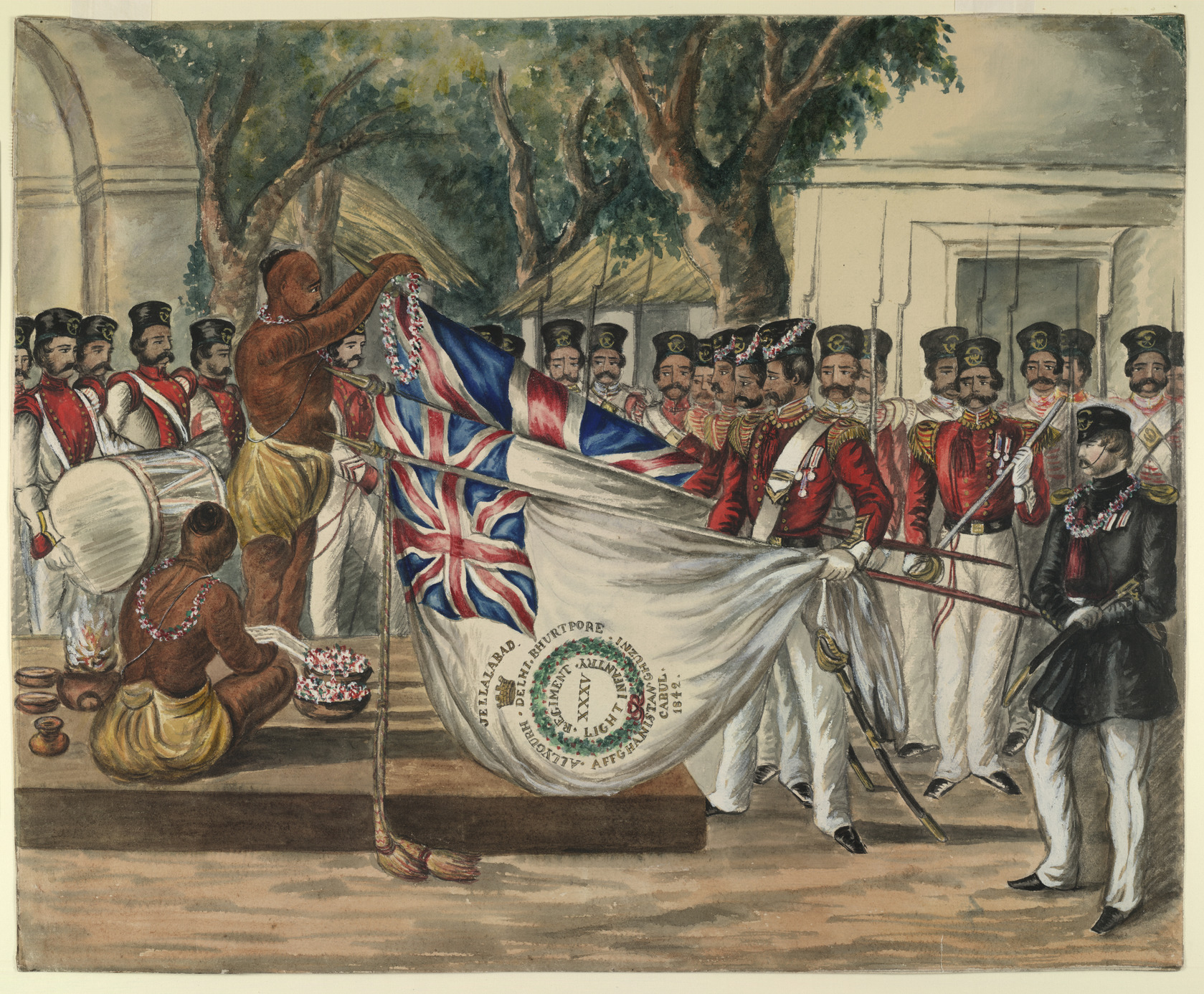 Hindu priest Hindu priest garlanding the flags of the 35th Bengal Light Infantry at a presentation of colours ceremony. One of two drawings depicting military occasions. Watercolour.